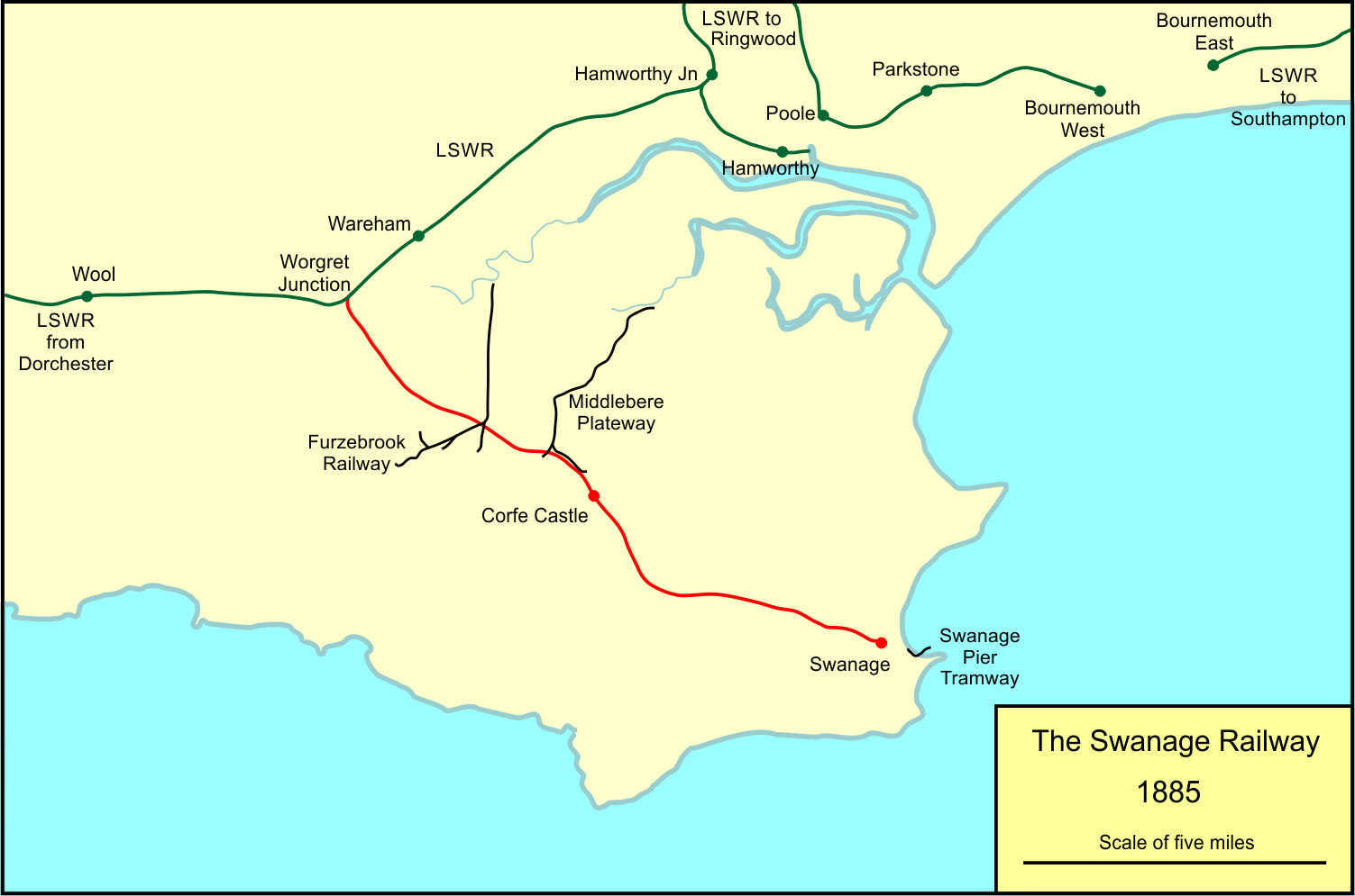 System map of the Swanage Railway in 1885